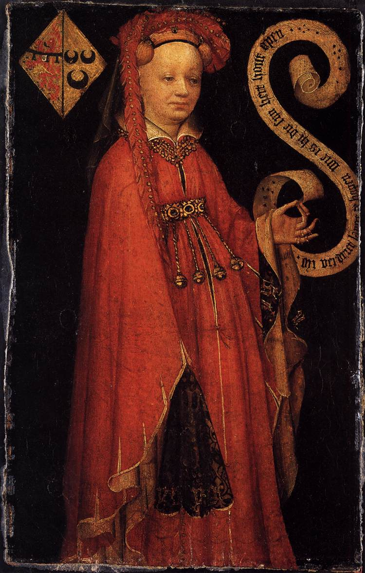 Standing, up to the ankle, to the right. In the left hand a scroll with an inscription : "Mi verdriet lange te hopen Wie is hi die sijn hert hout open". Top left the family crest. Part of a diptych, the whereabouts of the right wing with the portrait of her husband (in 1430) Symon van Adrichem is unknown.